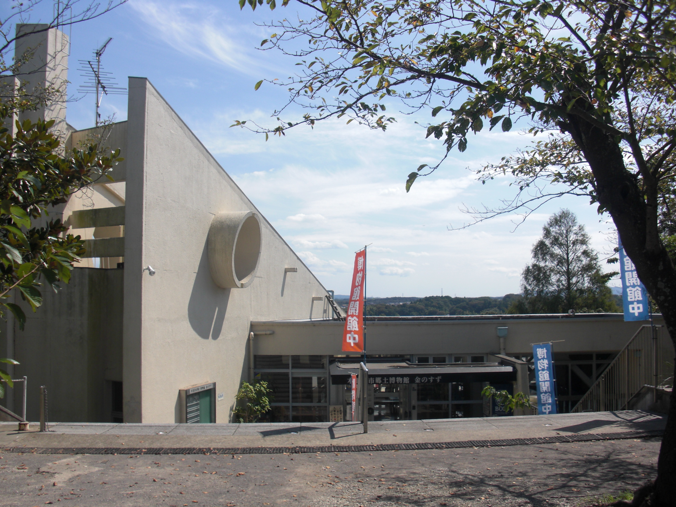 This is a museum in Kisarazu, Chiba, Japan.